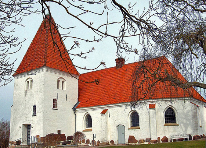 Avnede Church, Lolland. Derivative file with cropping and rotation removing caption.